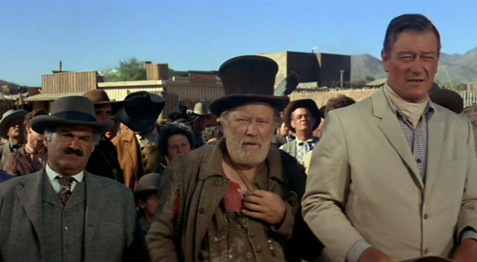 L. to R. : Jack Kruschen, Edgar Buchanan & John Wayne in McLintock! - cropped screenshot